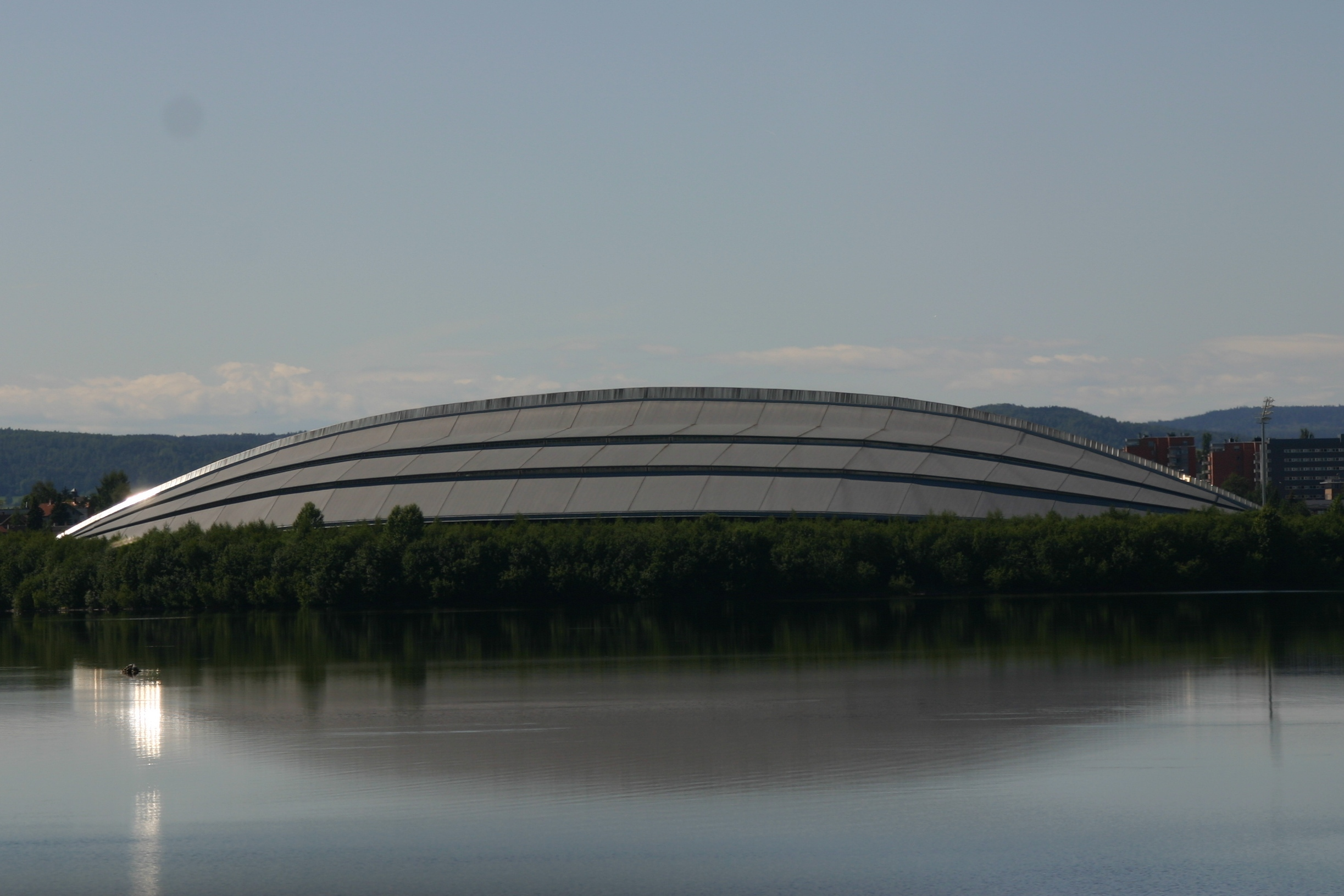 Hamar - hall purpose-built for the Lillehammer Winter Olympics